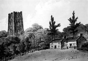 Painting by John Hassell of The Obelisk in Camberley.